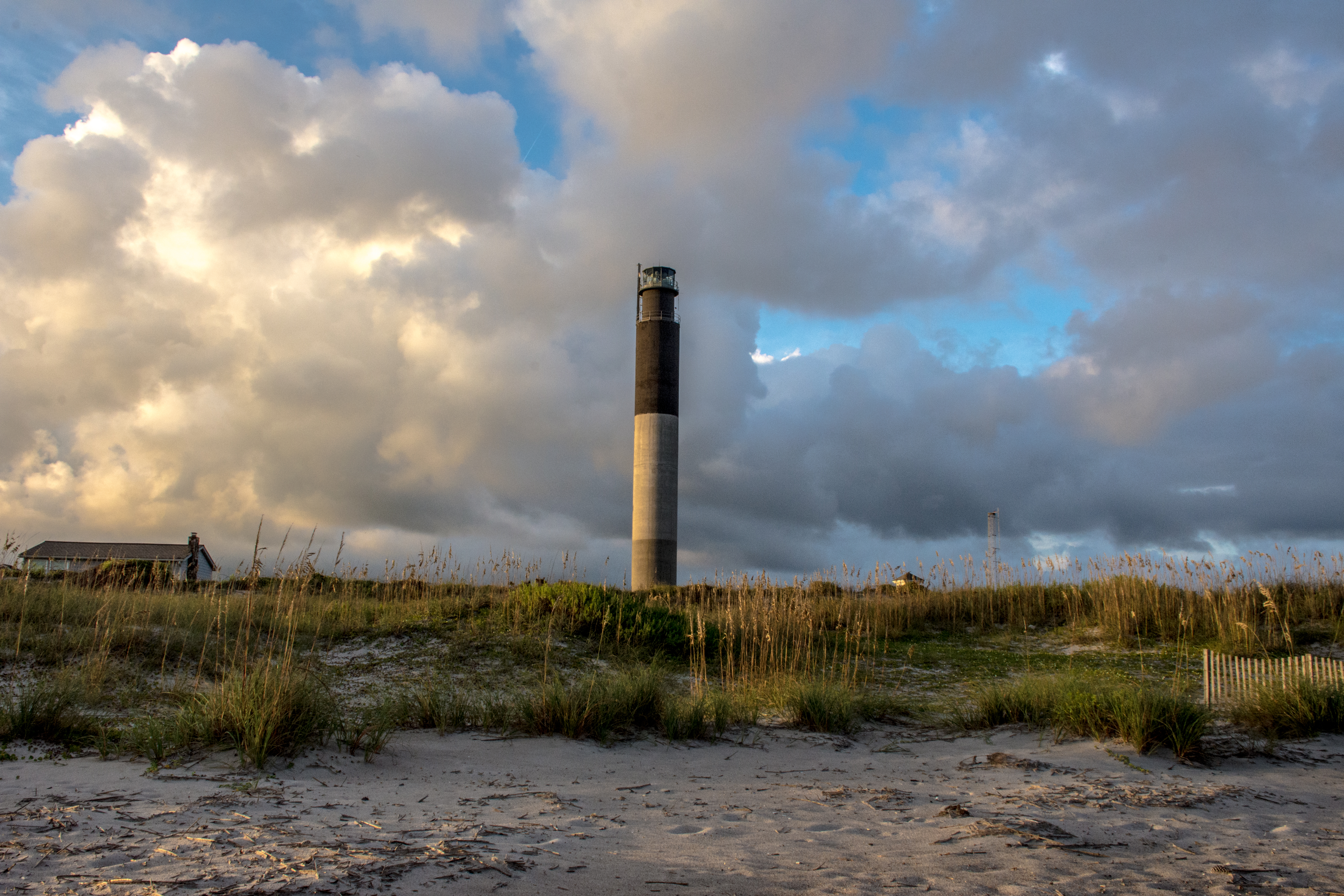 This is a picture of Oak Island Light house at Caswell Beach North Carolina.